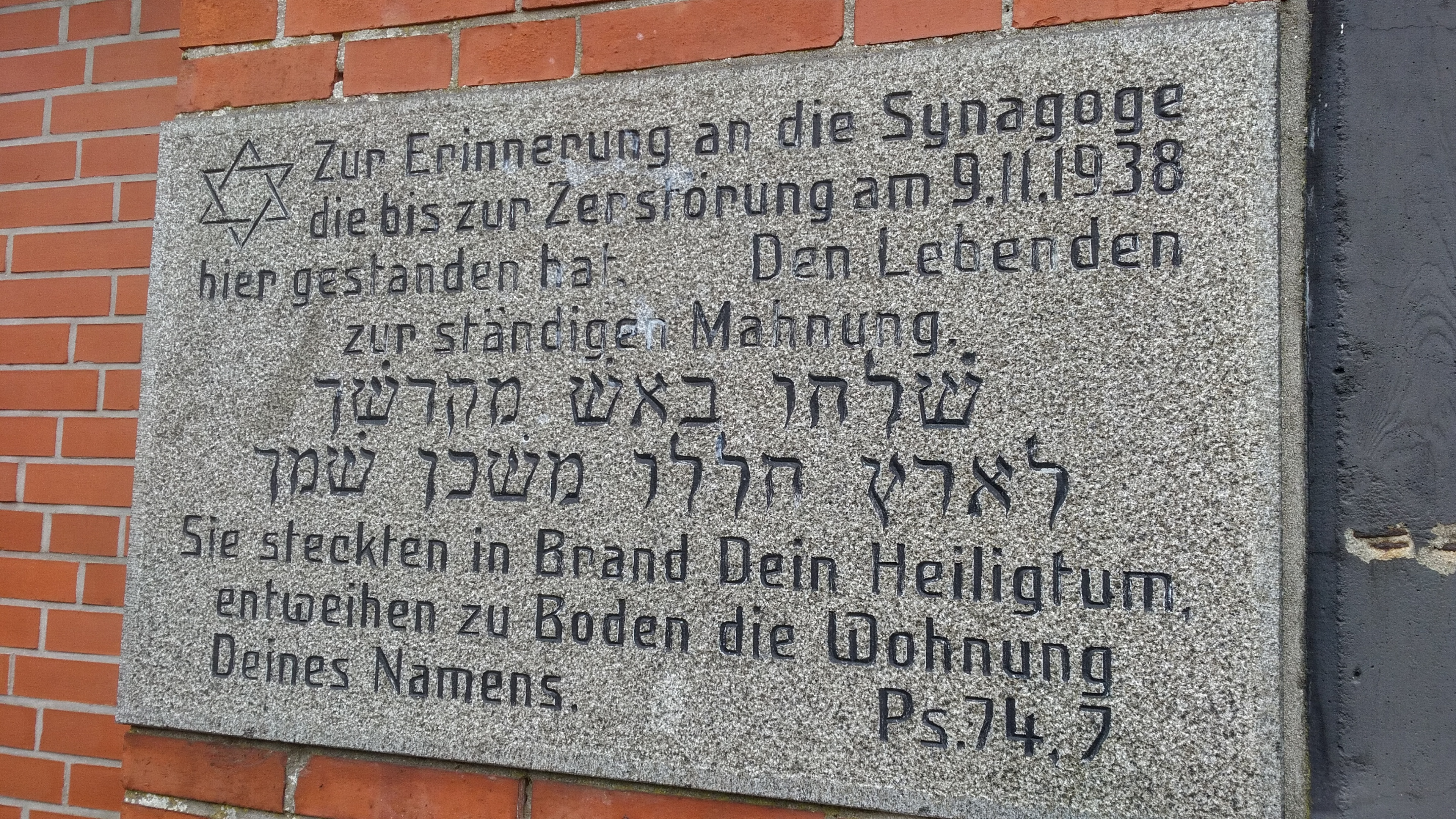 A sign commemorating the former Jewish temple that was destroyed by the Nazi's in the Low-Saxon city of Leer, East-Frisia.